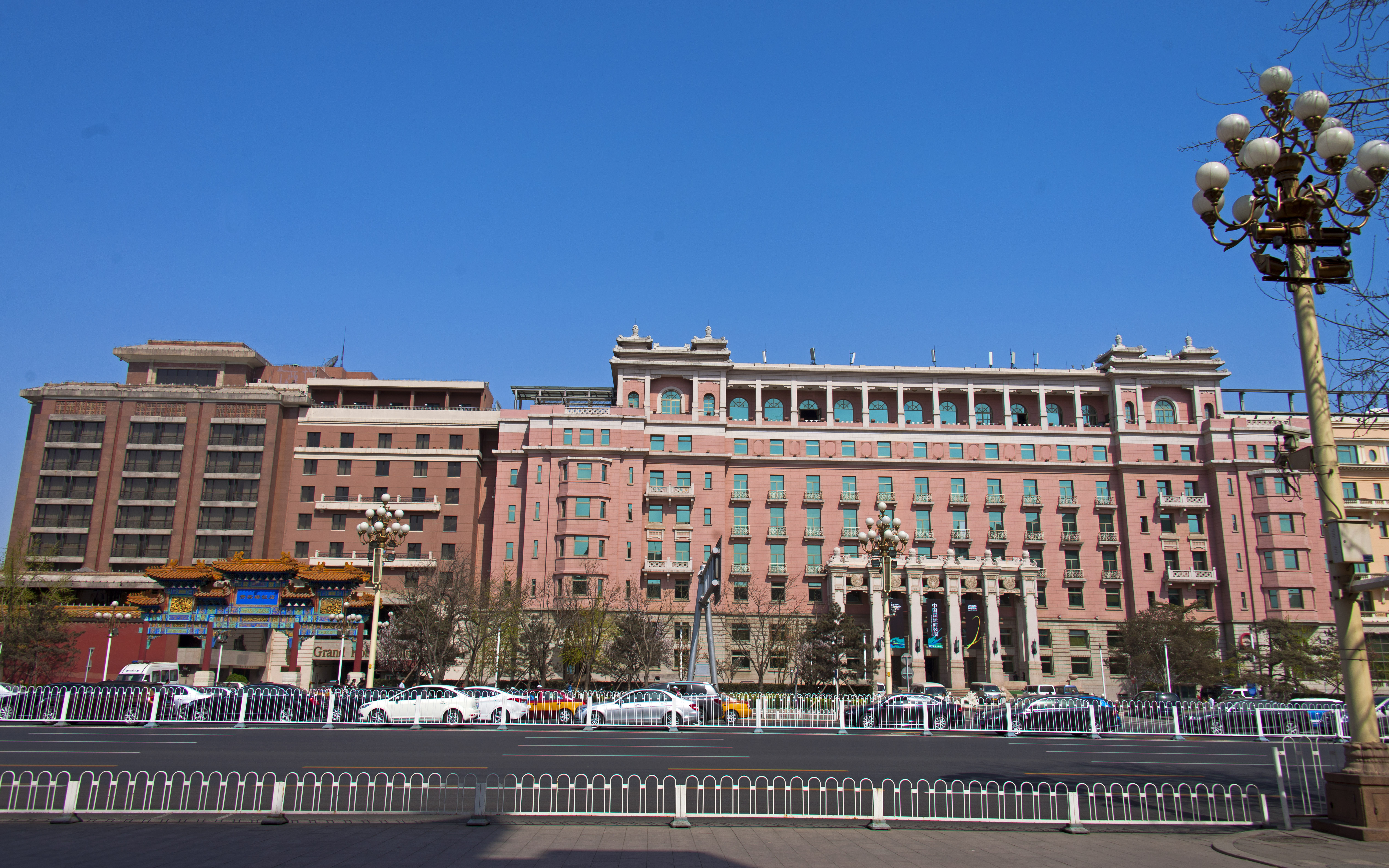 Block C, Grand Beijing Hotel, the building's oldest portion.